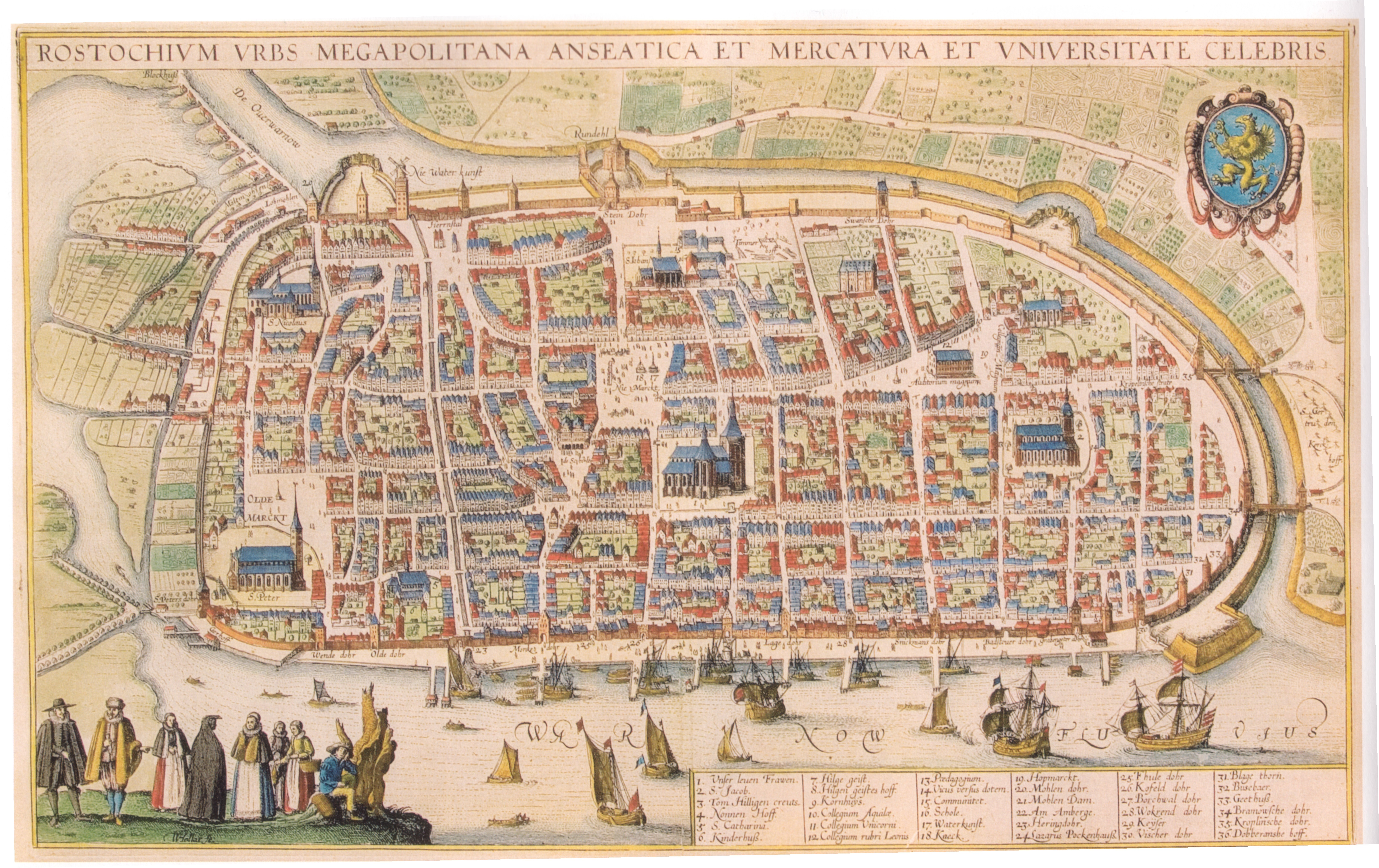 Map of Rostock by Wenzel Hollar